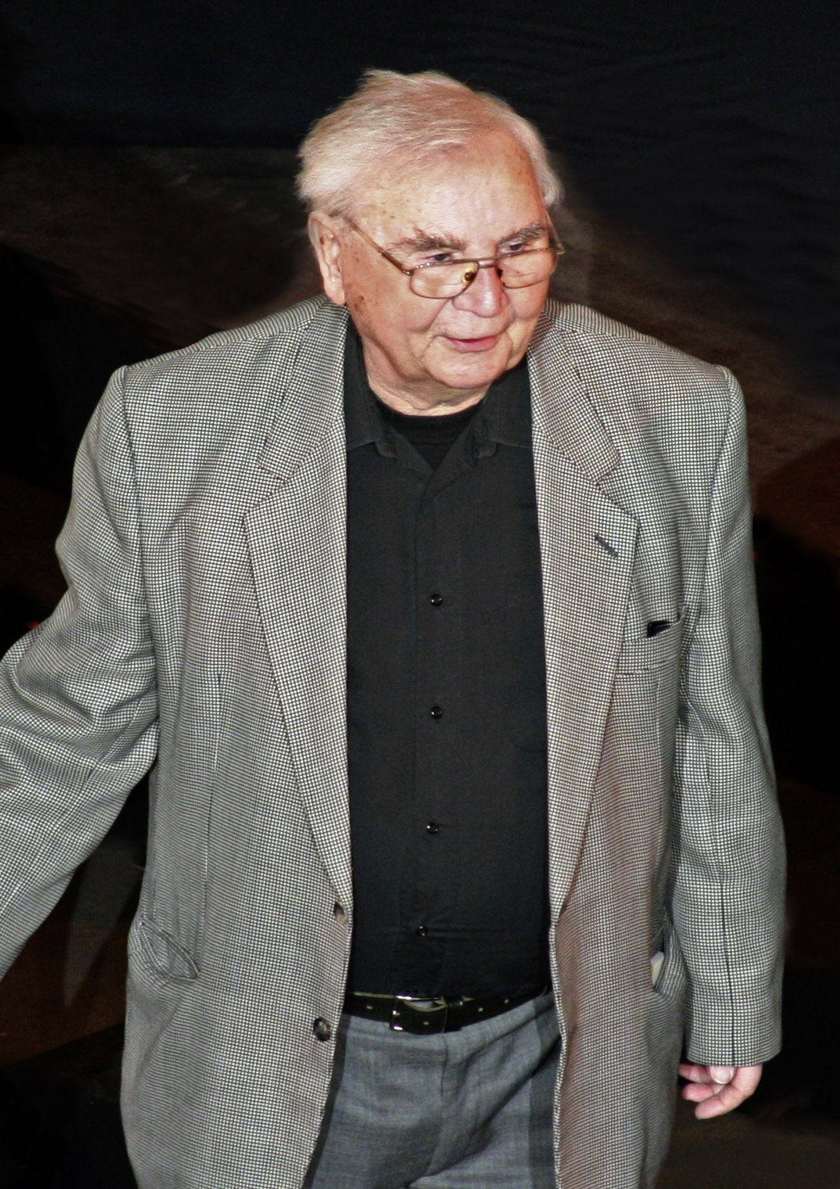 Zoltán Horvath Hungarian theatrical director